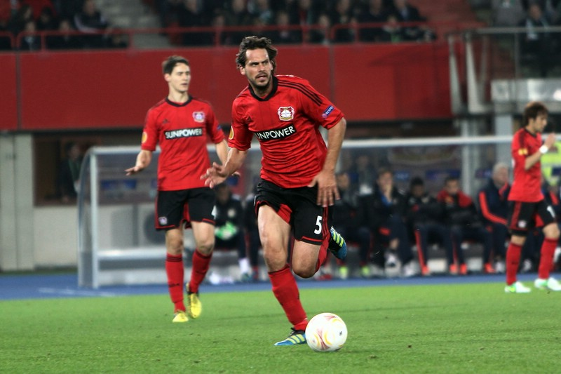 Manuel Friedrich and Philipp Wollscheid playing for Bayer Leverkusen.